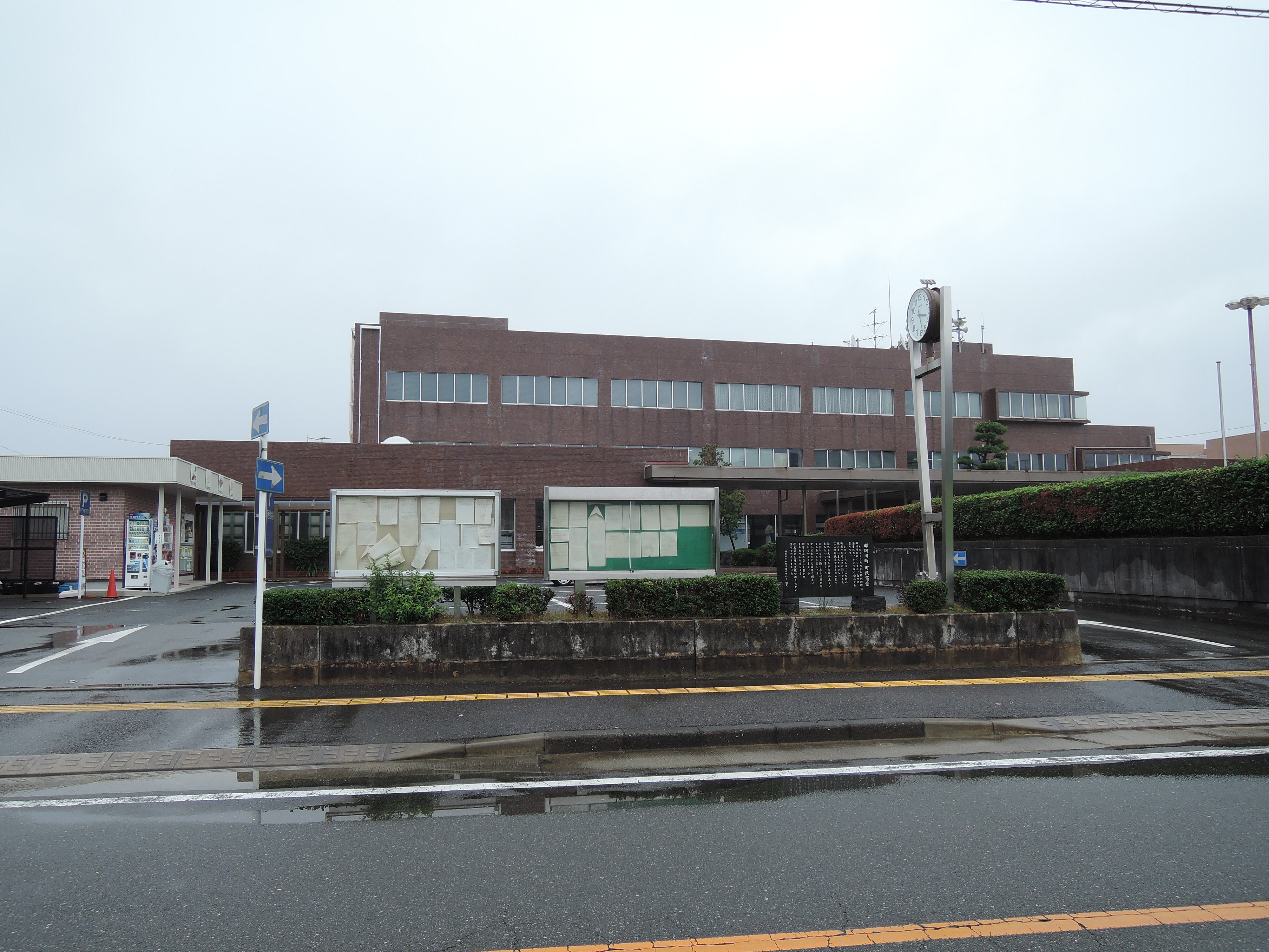 Nakagawa town hall,Fukuoka prefecture,Japan